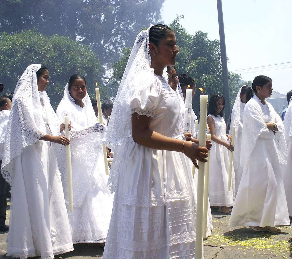 It is said that there were 365 churches at one point in Cholula. One for every day of the year. Many still exists are some of them are the most spectacular in all of Mexico.